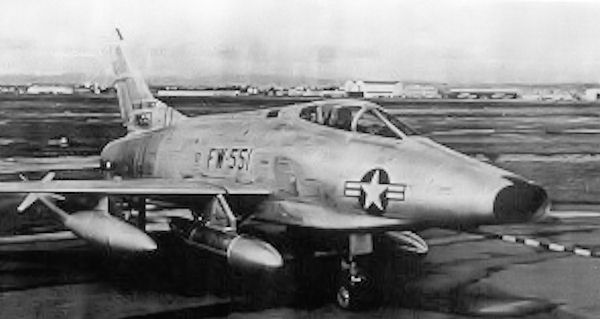 North American RF-100A Slick Chick Reconnaissance Aircraft 53-1551